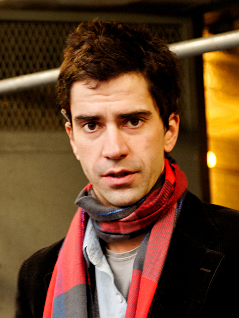 American actor Hamish Linklater at the stage door of the John Golden Theatre after a performance of Theresa Rebeck’s Seminar.